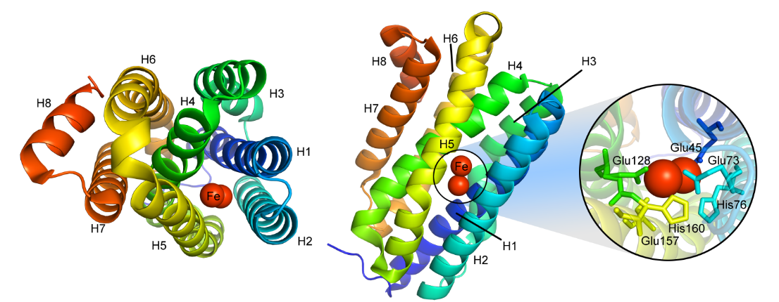 Structure and active site of P marinus cADO in active conformation, PDB 4PGI